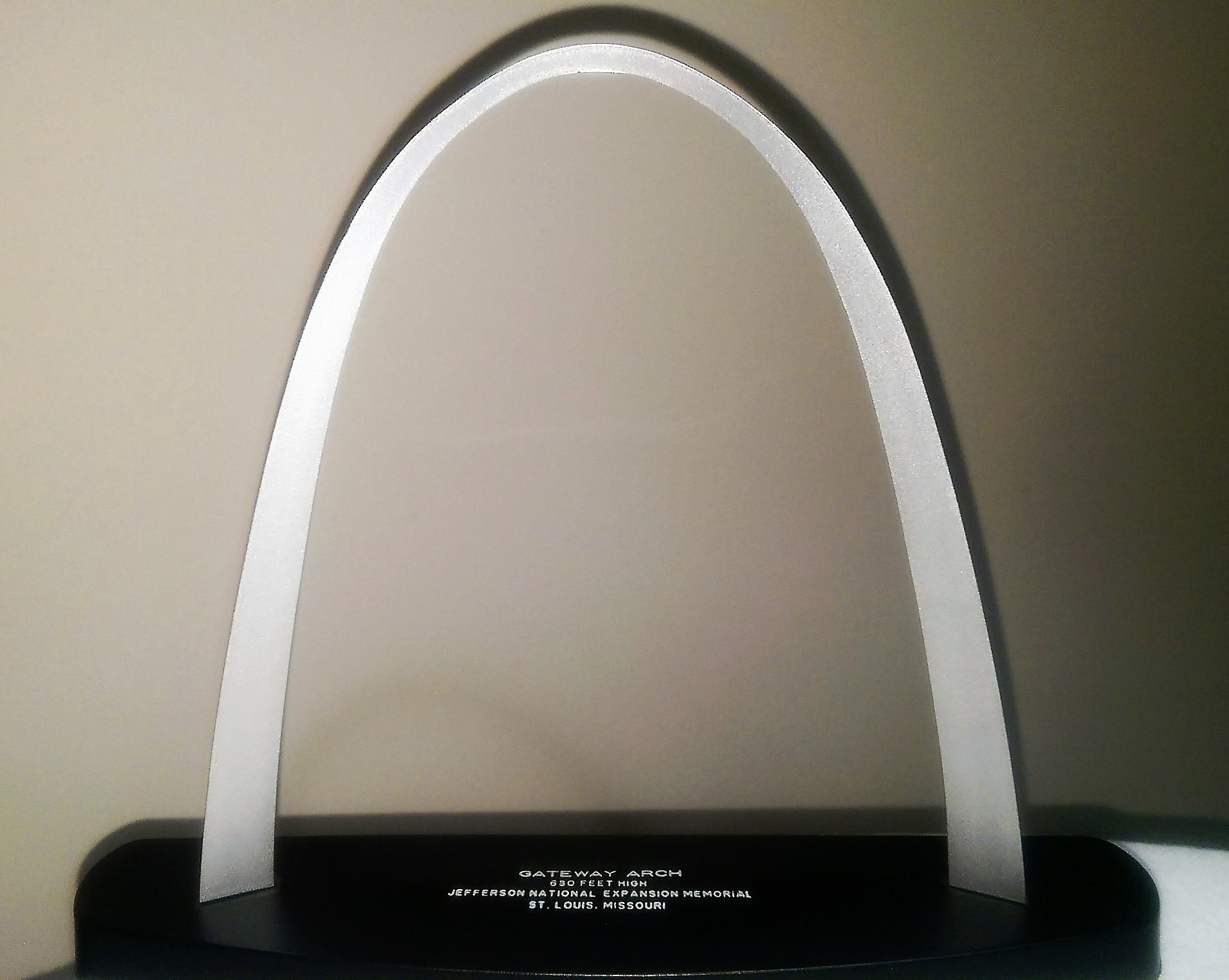 Gateway Arch monument sold at the museum inside the St. Louis Arch manufactured by General Fibre Company.